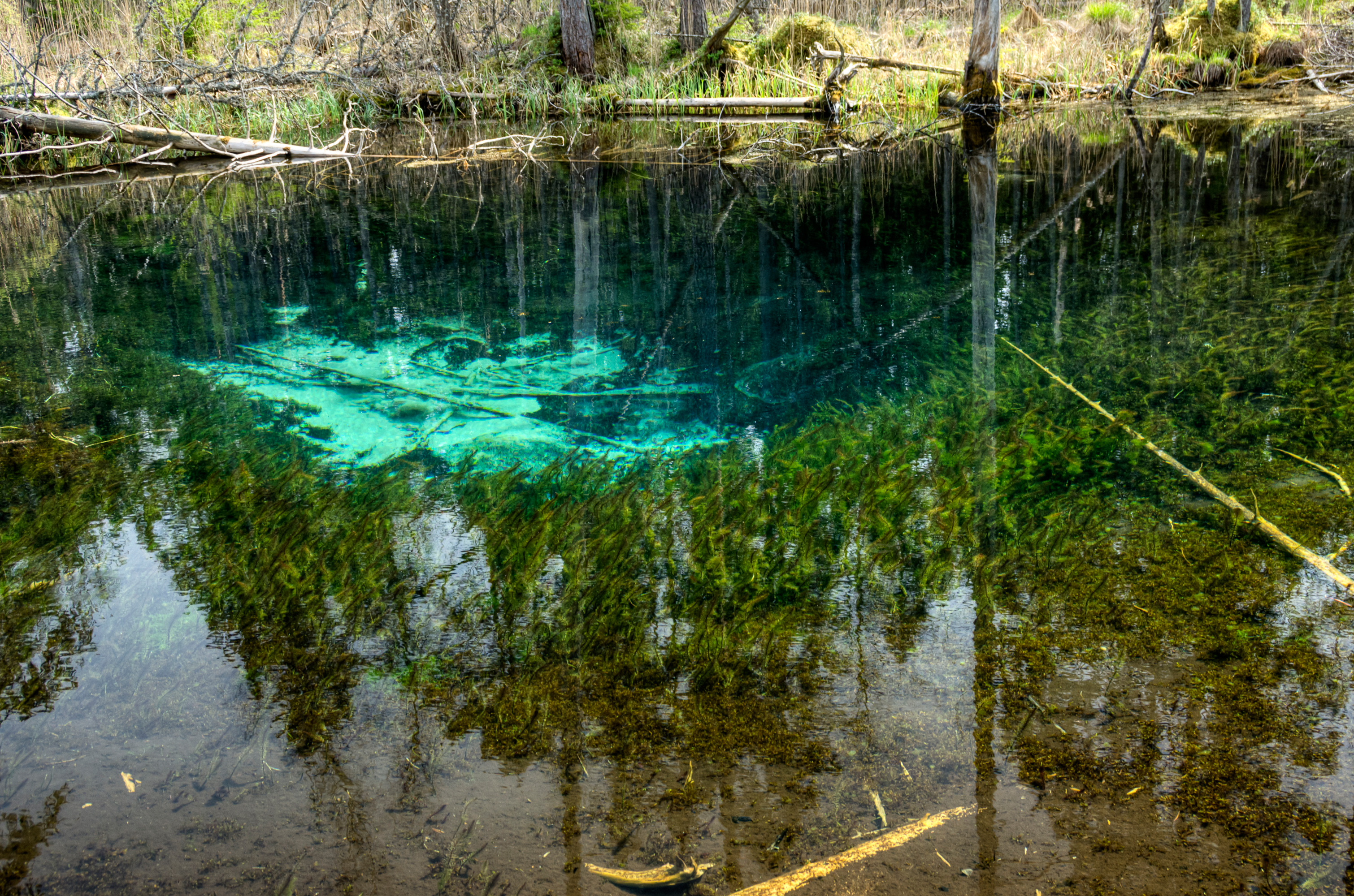 Vilbaste springs, Endla Nature Reserve